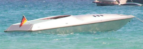 Porsche Yacht